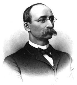 19th and early 20th century Seattle, Washington lawyer and judge Roger S. Greene